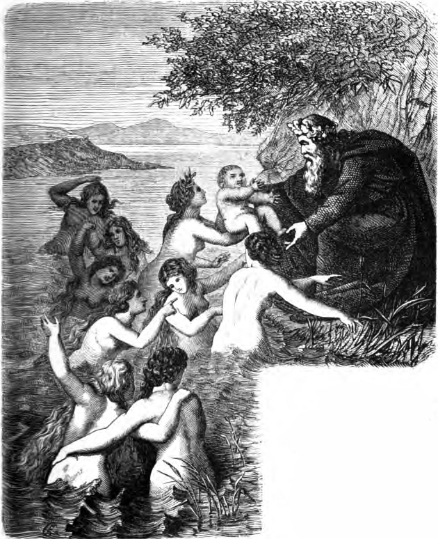 Captioned "Heimdal durch die neun Wellenjungfrauen emporgehoben". Heimdallr lifted by his mothers, the nine wave maidens.